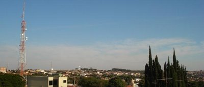 Panoramic sight of Paulínia.